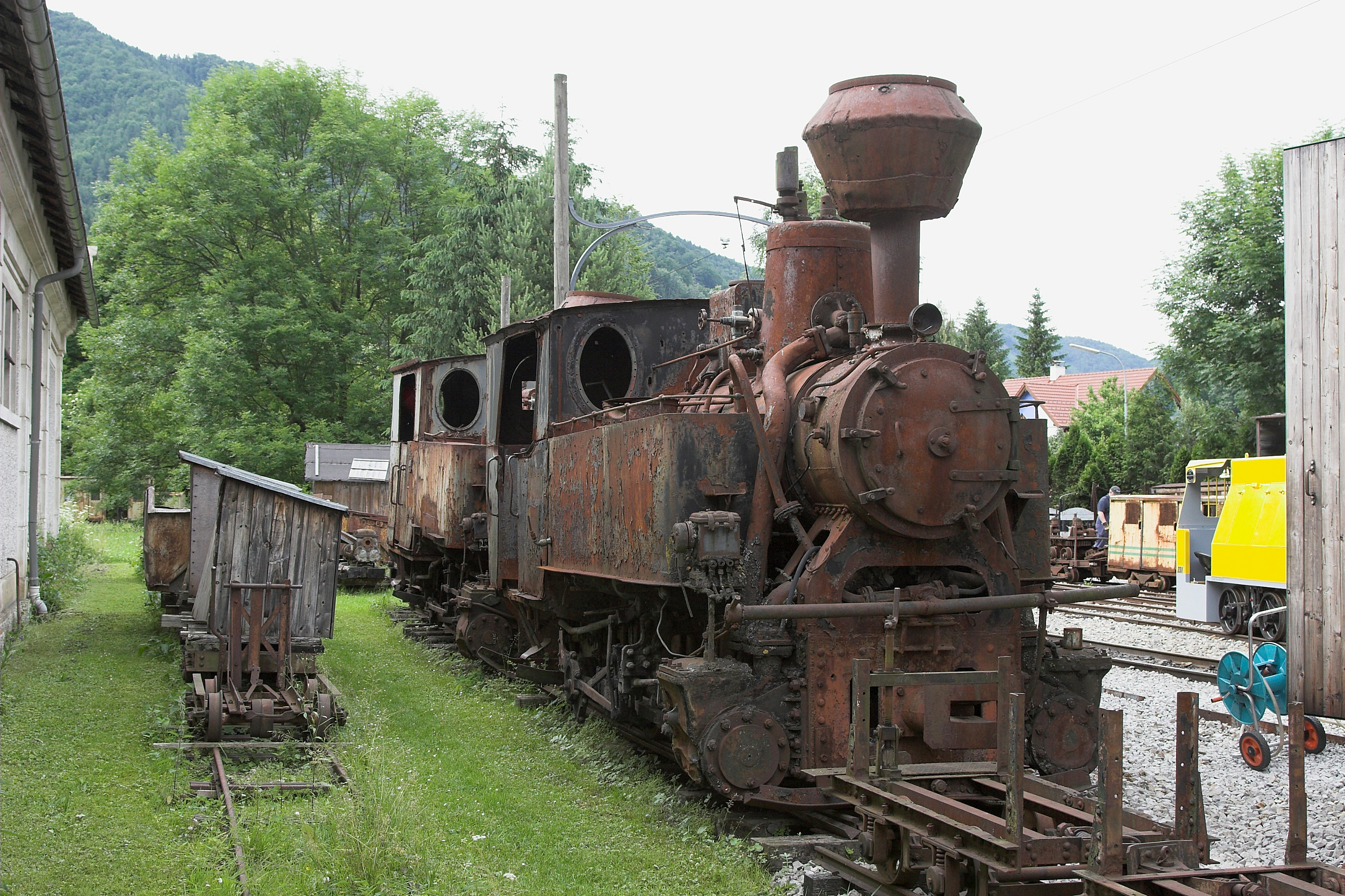 764-222 at the Feld- und Industriebahnmuseum (Light and industrial railway museum) at Freiland, Lower Austria